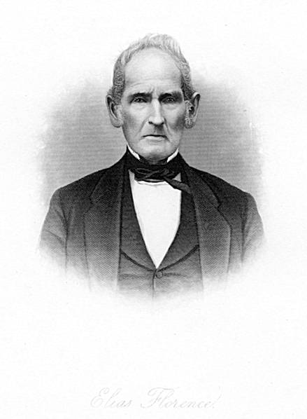 Elias Florence , Ohio politician.